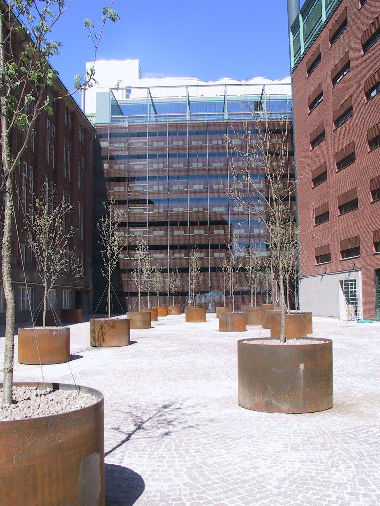 Headquarters of Senate Properties as seen from the inner courtyard, on Lintulahdenkatu in Helsinki.